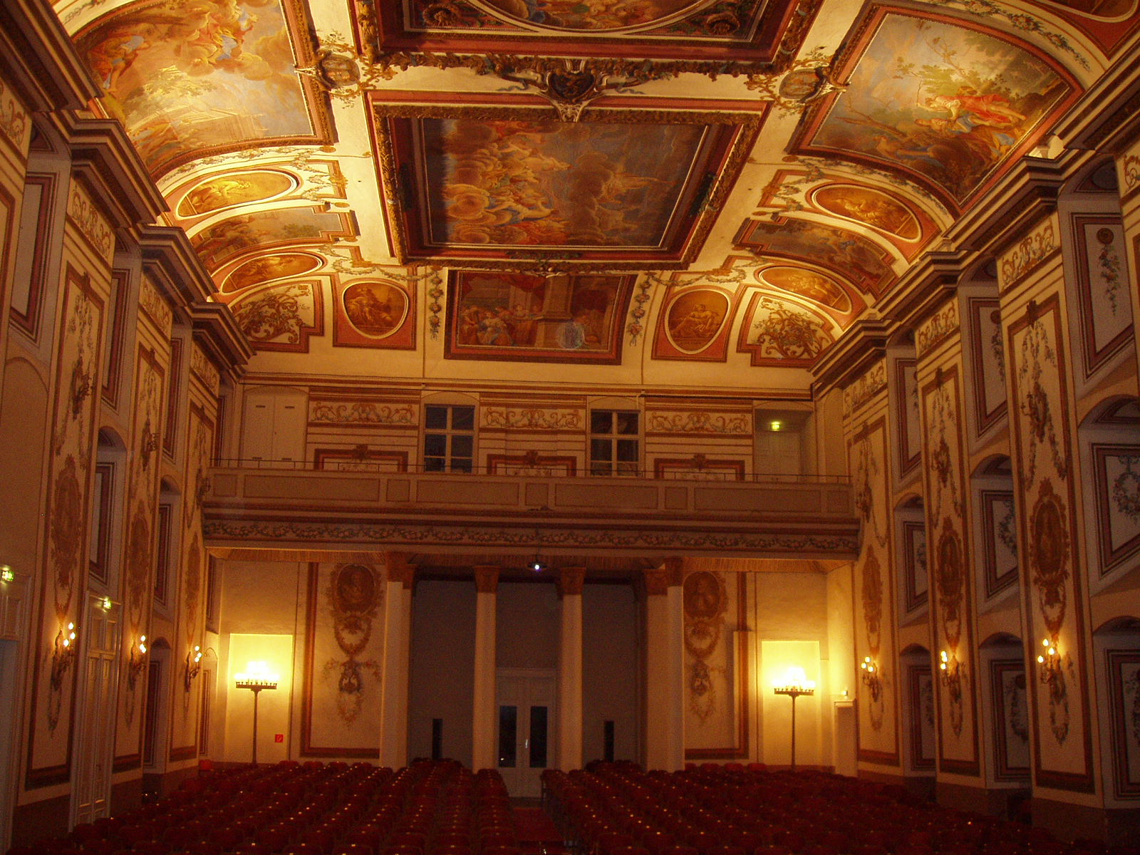 The Haydnsaal